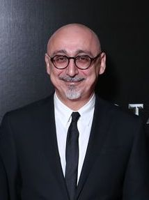 Мелькумов Сергей на премьере фильма "Сталинград"